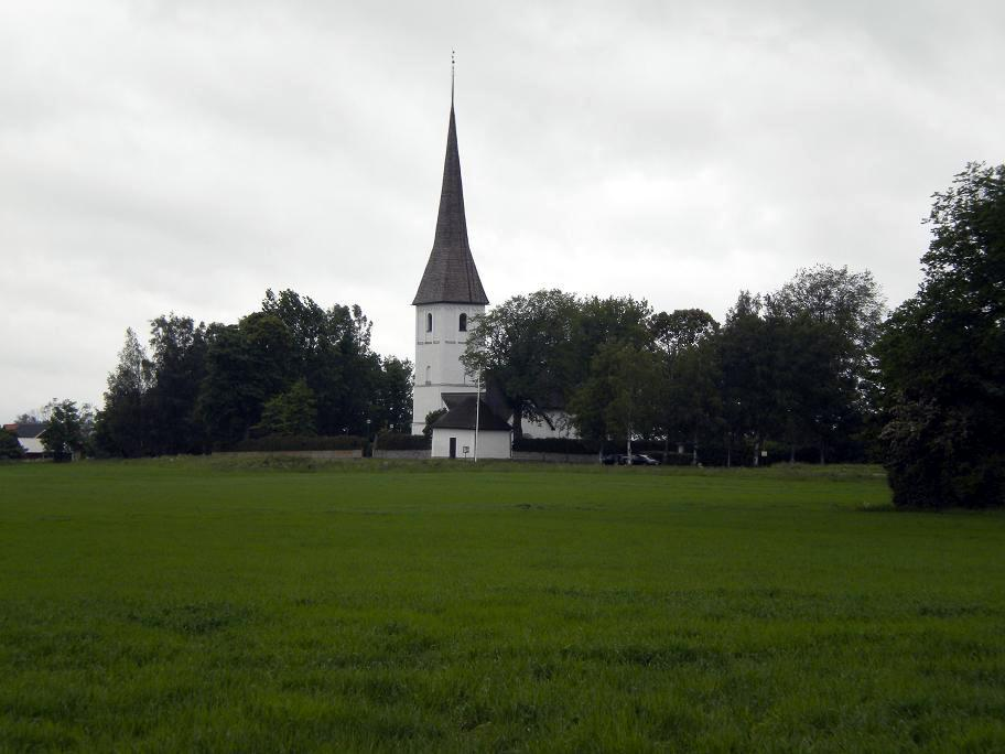 Kaga Church and Churchyard, purported site of the burial of King Eric (VIII) Goodyear (Erik Årsäll) around 1088, as released by image creator RistessonPlace: Linköping, Sweden